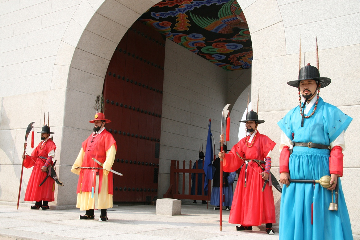 Gwanghwamun royal guards in 2012